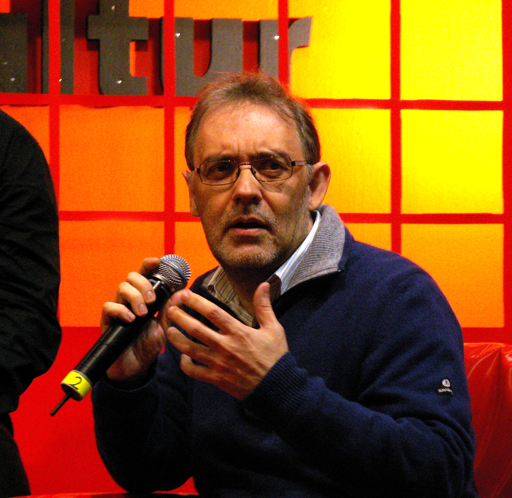 Lucchesi at the Göteborg Book Fair 2014